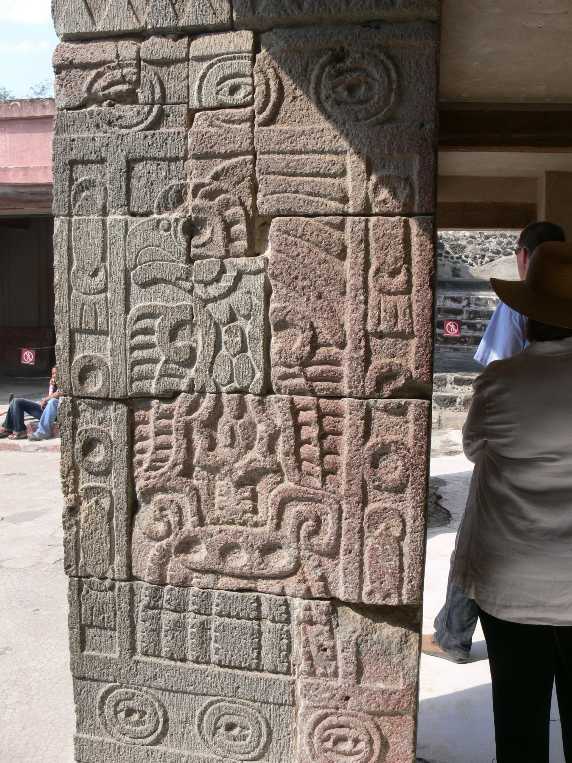 Palacio de Quetzalpalotl, Teotihuacán. Courtyard: Pillar with Quetzal bird